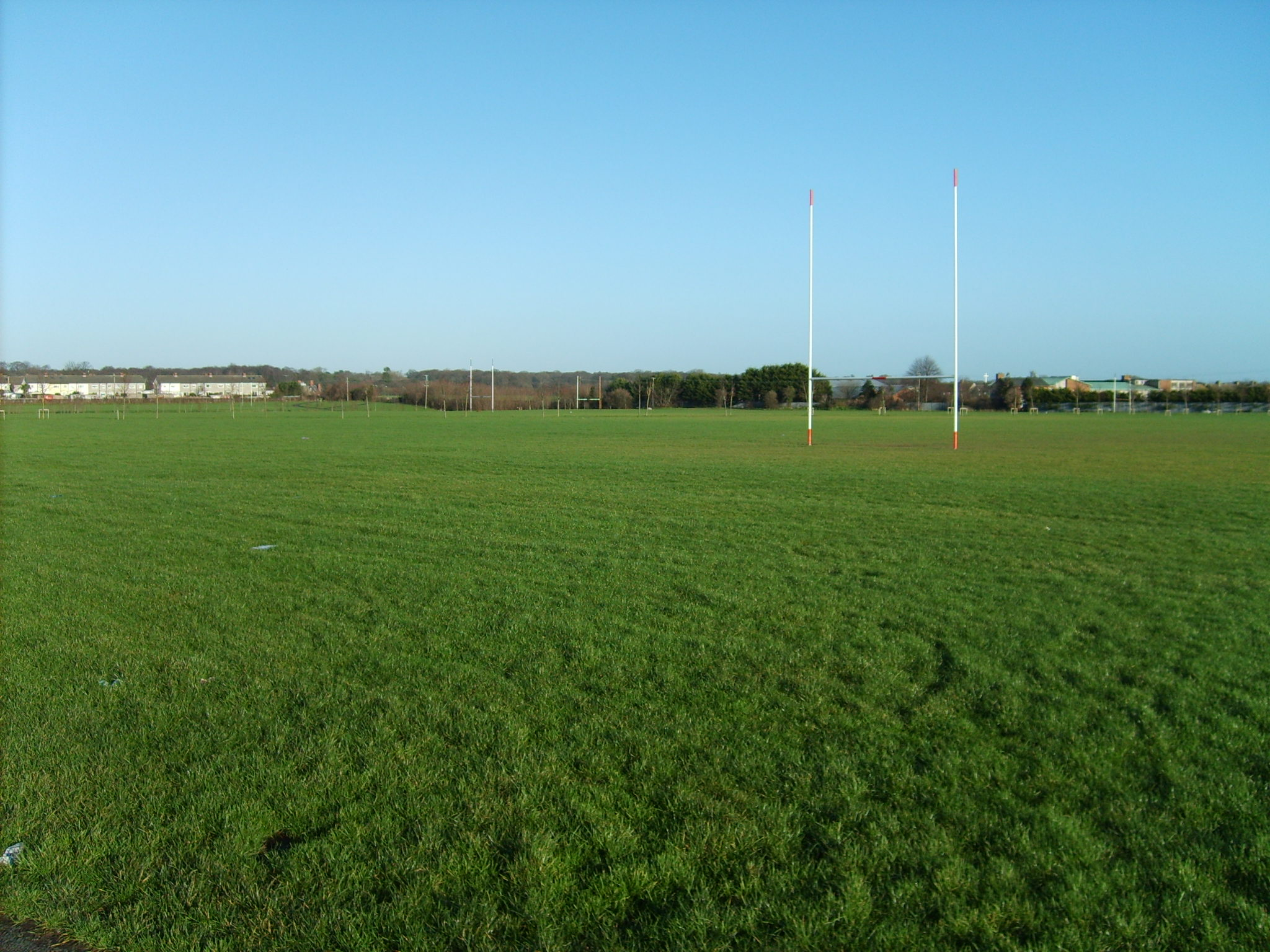 Author is myself